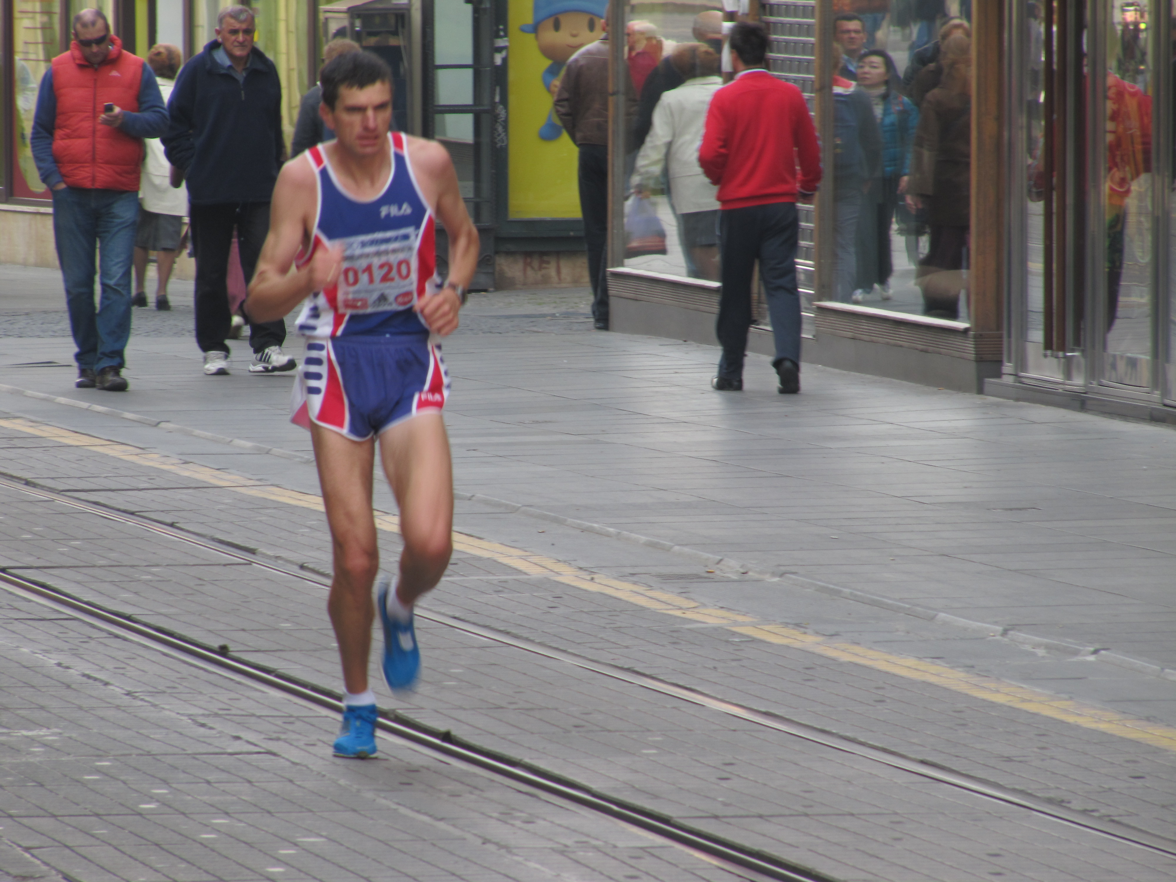 Sreten Ninković of Serbia en route to 4th place at the 2010 Zagreb Marathon.